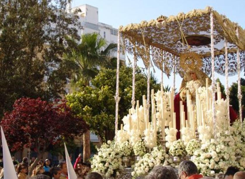 Procession with statue of the Blessed Virgin Mary of the Love of Saint Ferdinand ( Maria santísima del amor de San Fernando), Cádiz.